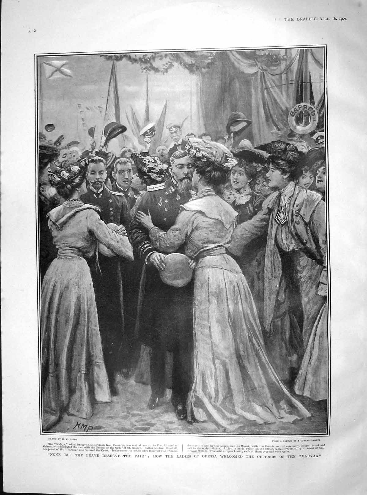 Picture from The Illustrated London News magazine showed the moments of gala meeting of officers of Russian Imperial Navy Varyag in Odessa